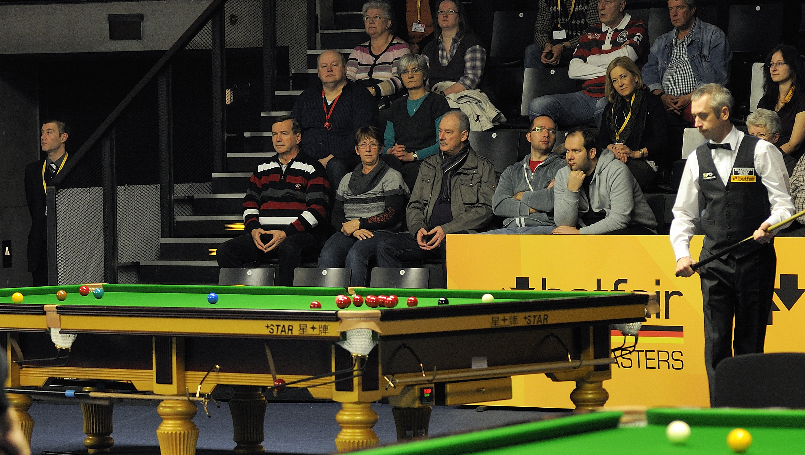 Picture taken in Berlin during the Snooker German Masters in 2013. Nigel Bond.